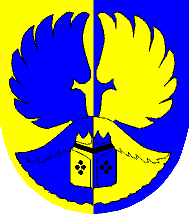 Dolní Vilémovice CoA CZ